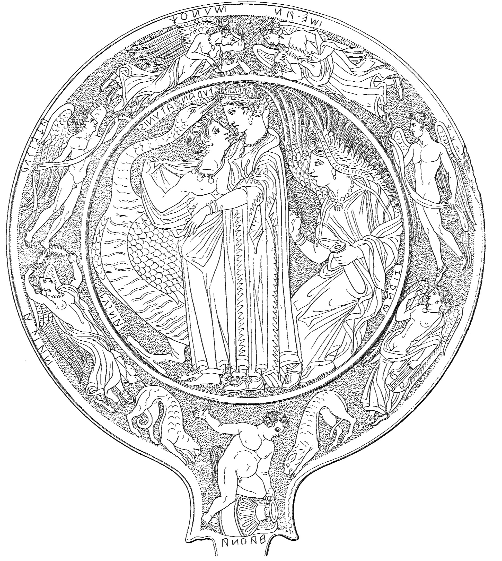 Etruscan mirror with Tusna, Atunis, Turan and Zipna in the center and Alpan, Achvizr, Munthuch, Mean, unidentified male, unidentified female and Hathna around